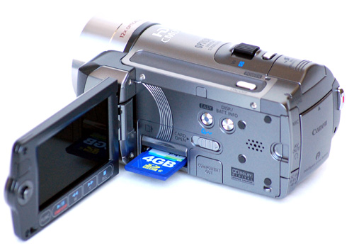 Canon HF100 tapeless camcorder with PQI 4GB SDHC card.